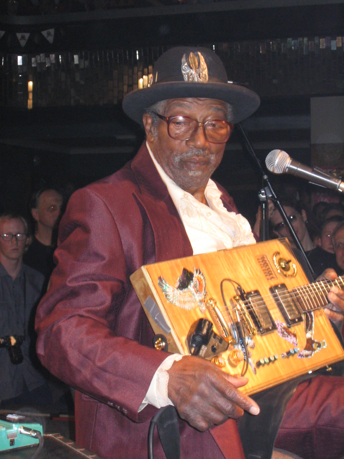 Bo Diddley in Prague (Lucerna Bar)